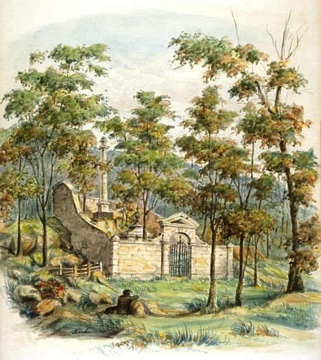 Watercolour : The McTavish Monument; John Henry Walker (1831-1899); 1850-1860, 19th century; 29 x 22.4 cm; Gift of Mr. David Ross McCord; M751; McCord Museum.